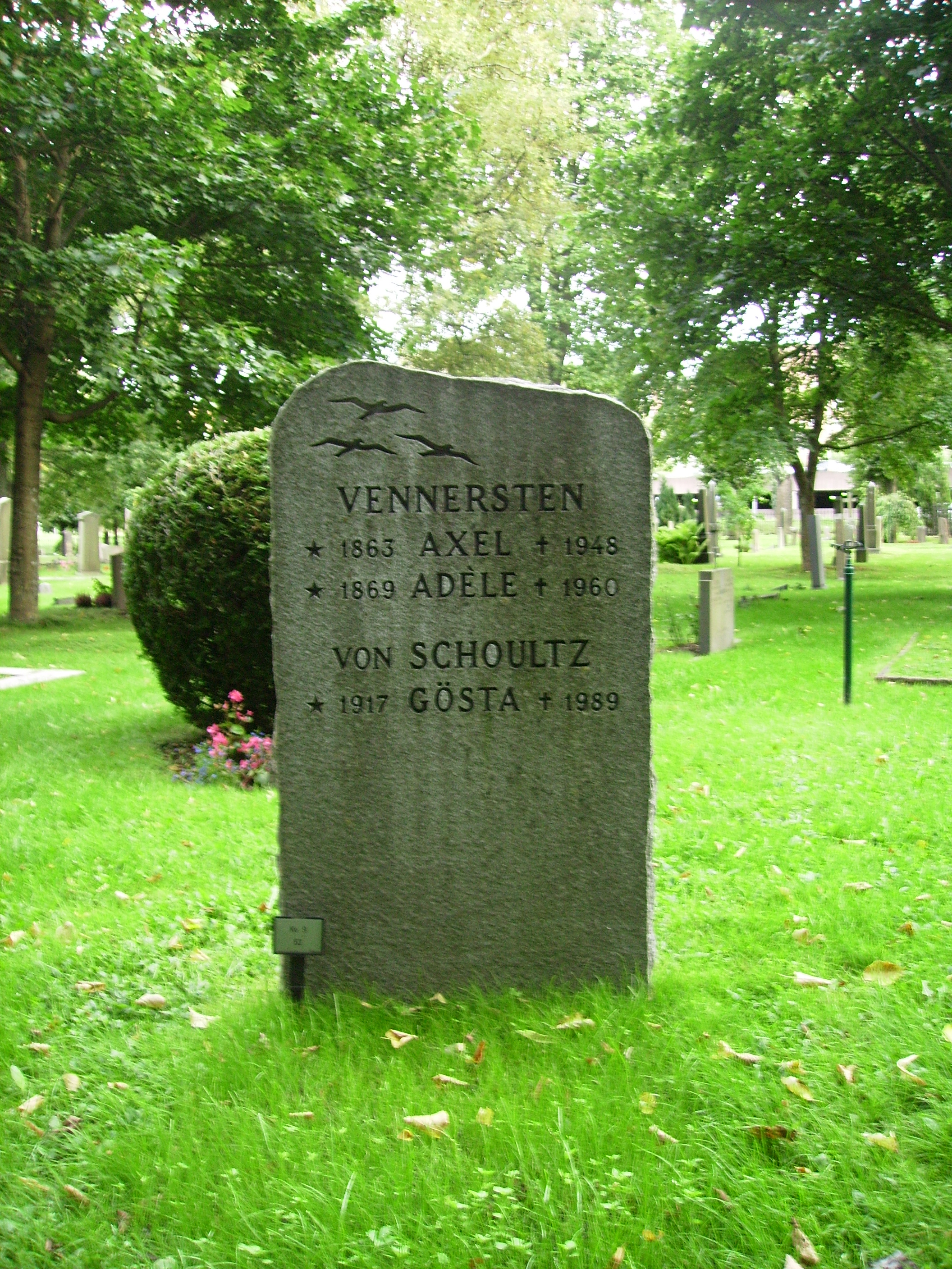 Picture of Axel Vennerstens grave at Norra begravningsplatsen in Stockholm